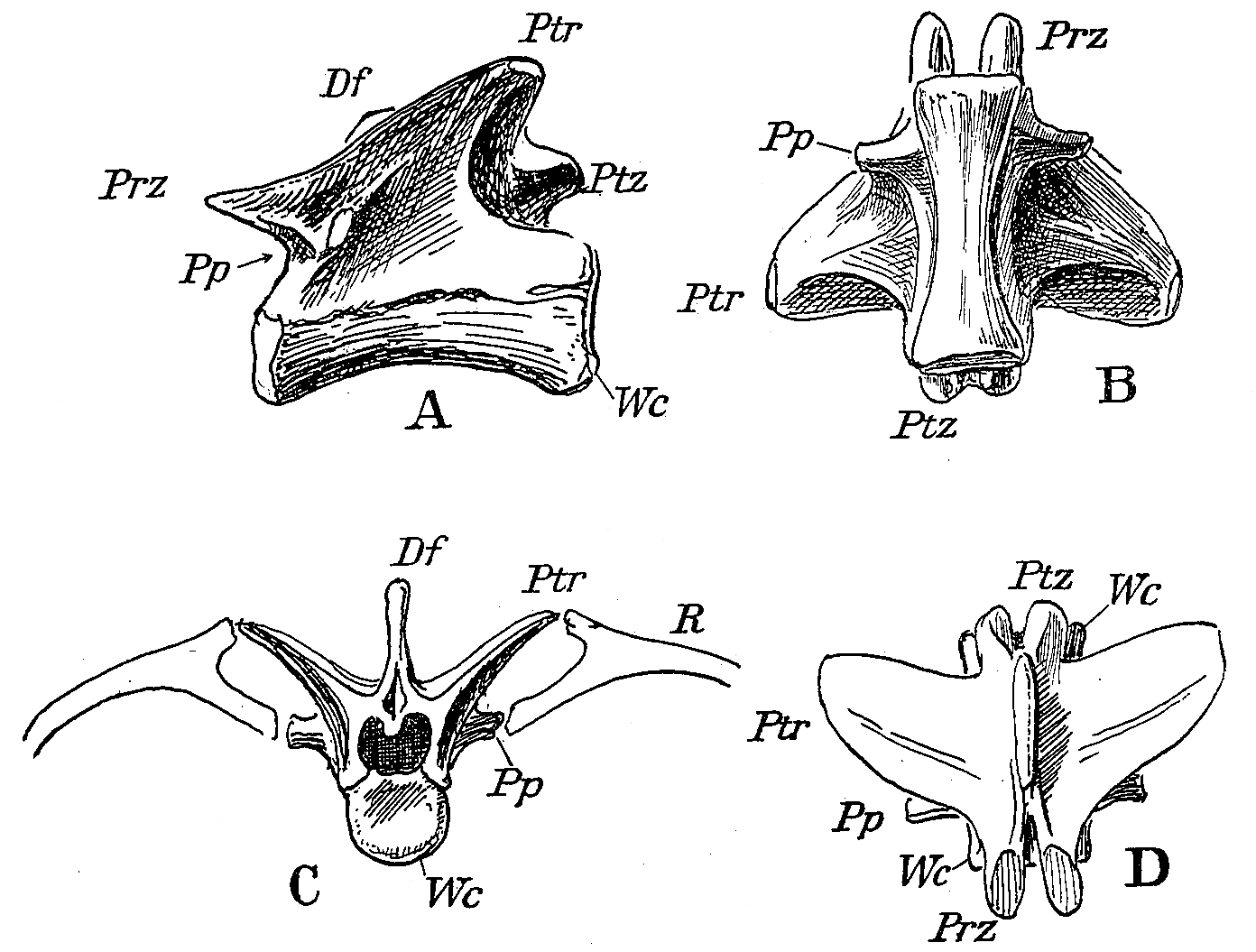 Back vertebra of Pterospondylus trielbae in several views.